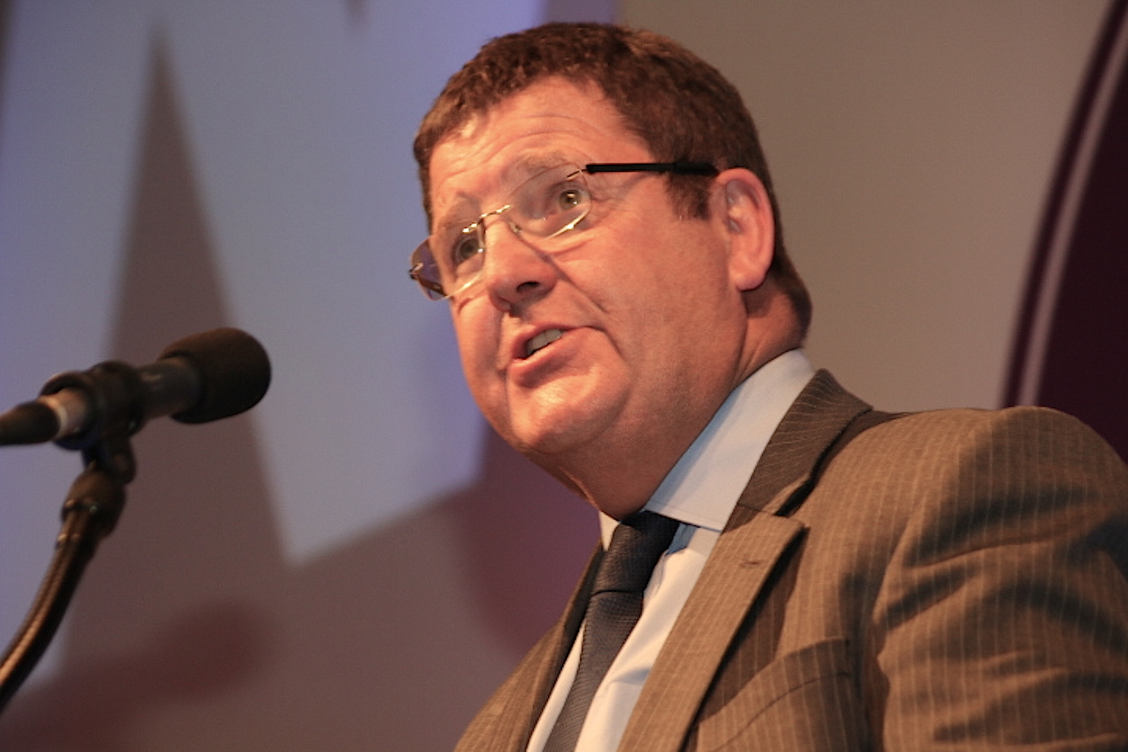 Mike Hookem MEP